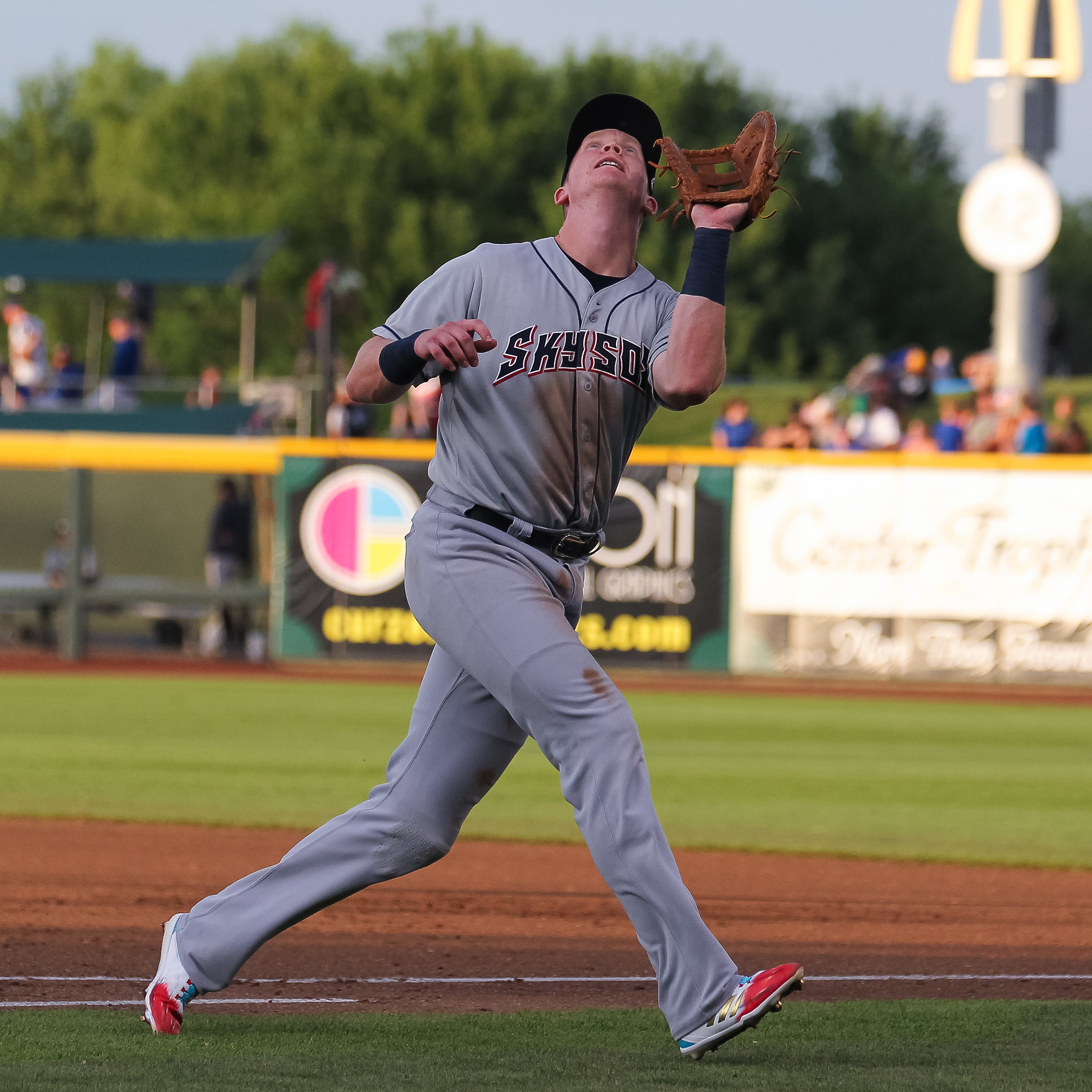 Garrett Cooper of the Colorado Springs Sky Sox catches a foul popup during a 2017 game against the Omaha Storm Chasers at Werner Park in Omaha.